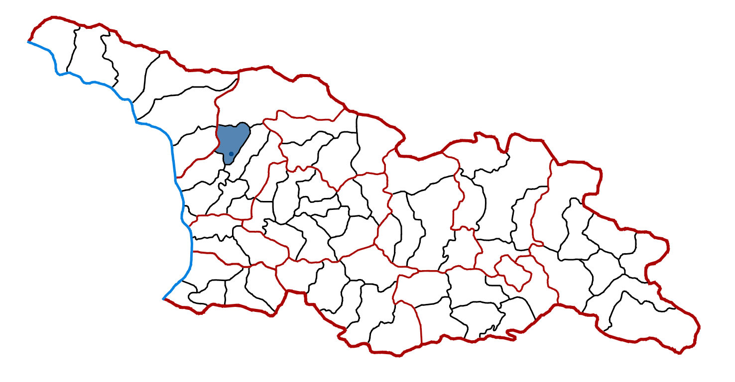 Location of Tsalenjikha district in Georgia